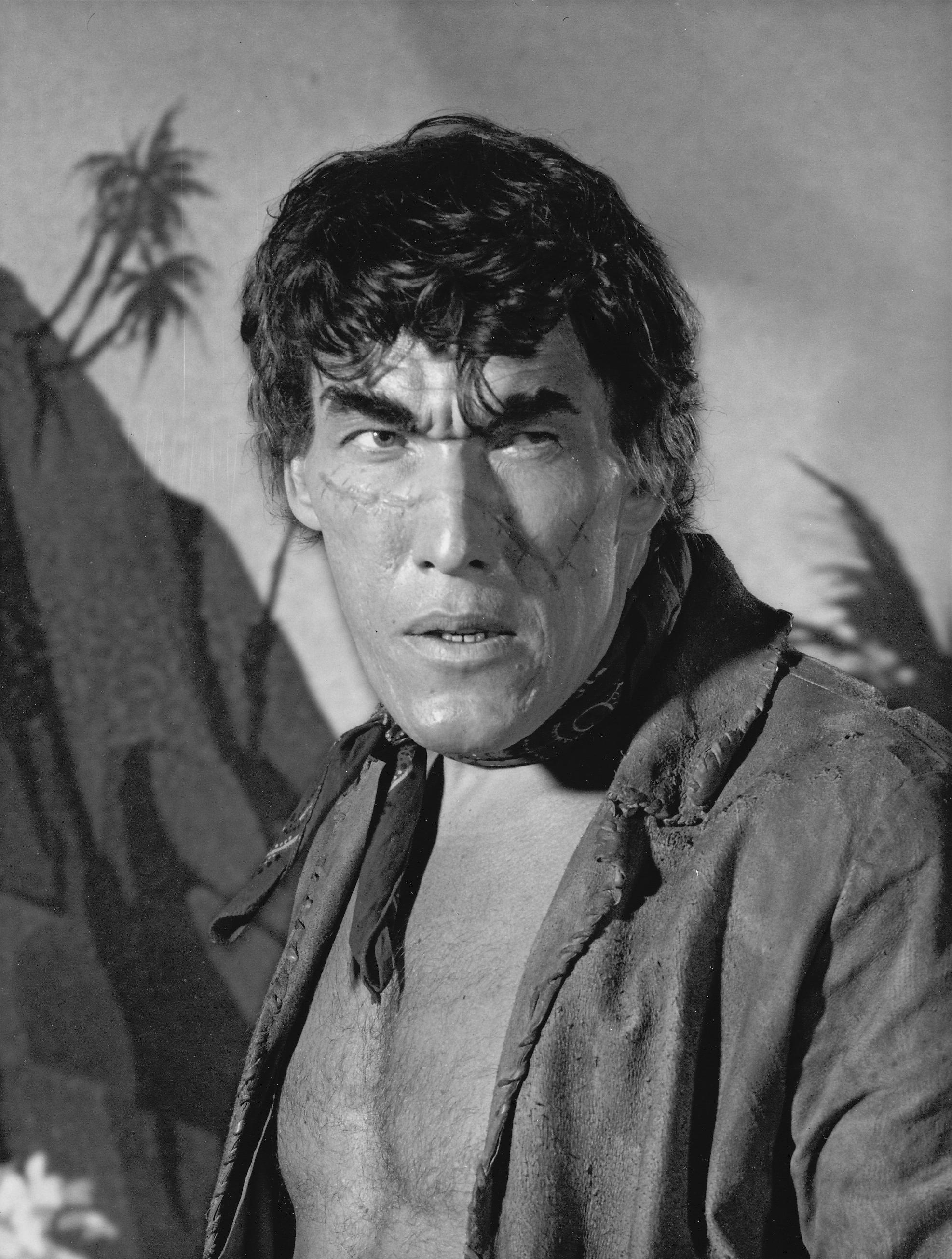 Publicity photo of actor Ted Cassidy promoting his role as "Injun Joe" on the television series The New Adventures of Huckleberry Finn.